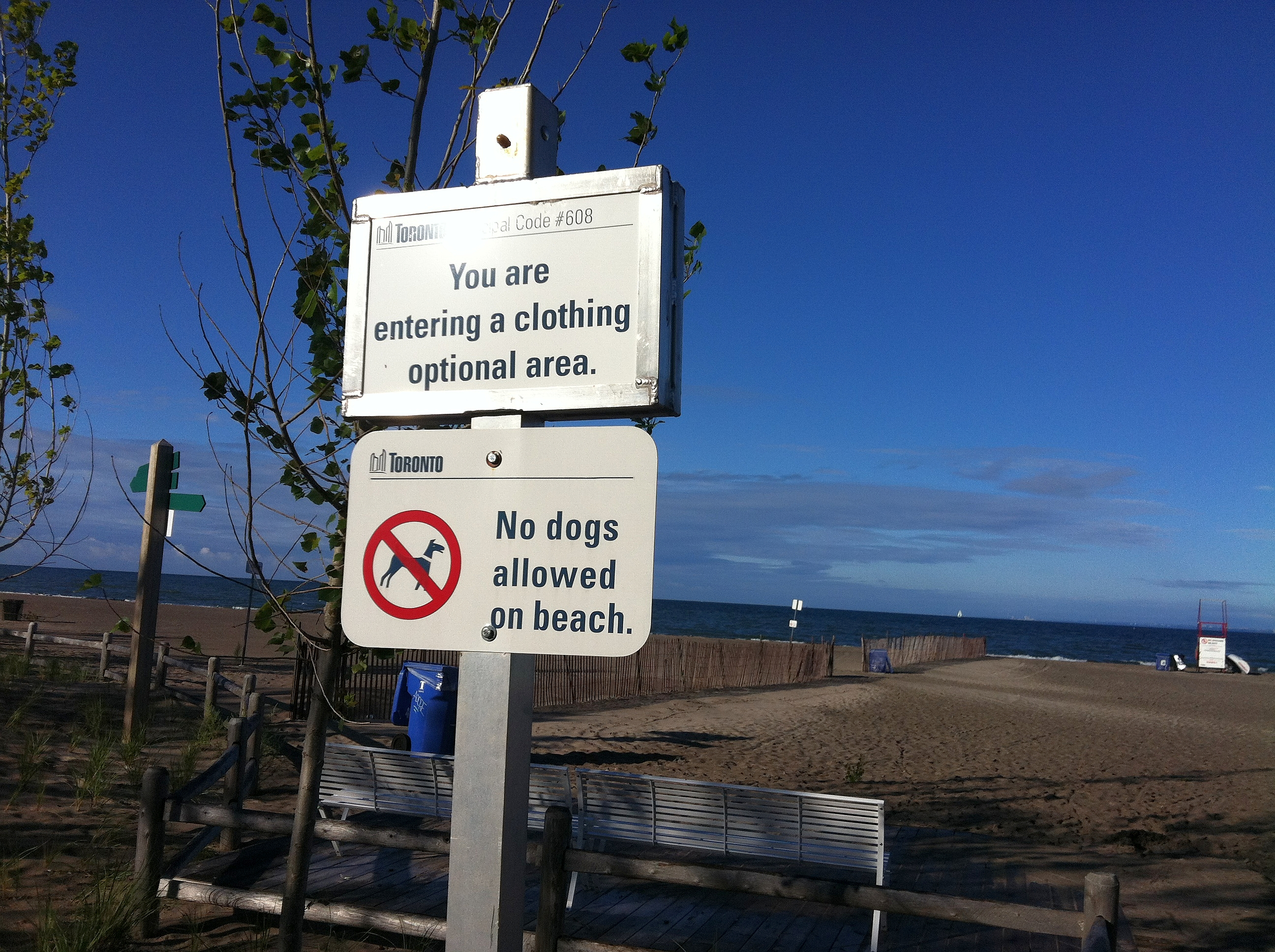 Hanlan's Point Beach, Toronto